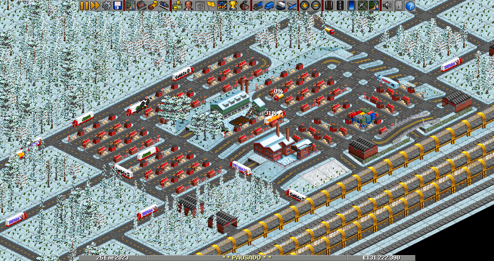 OpenTTD 1 5. A Broken Truck.